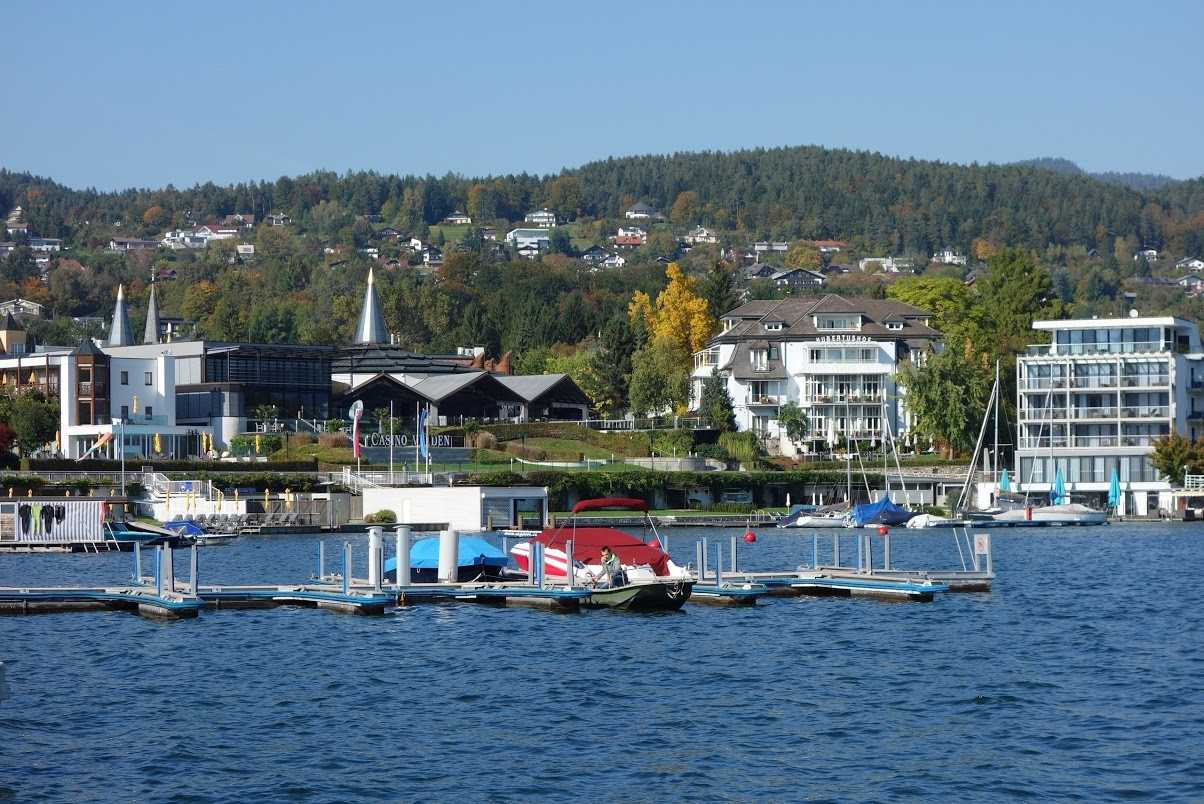 Casino Velden, in Velden am Wörthersee